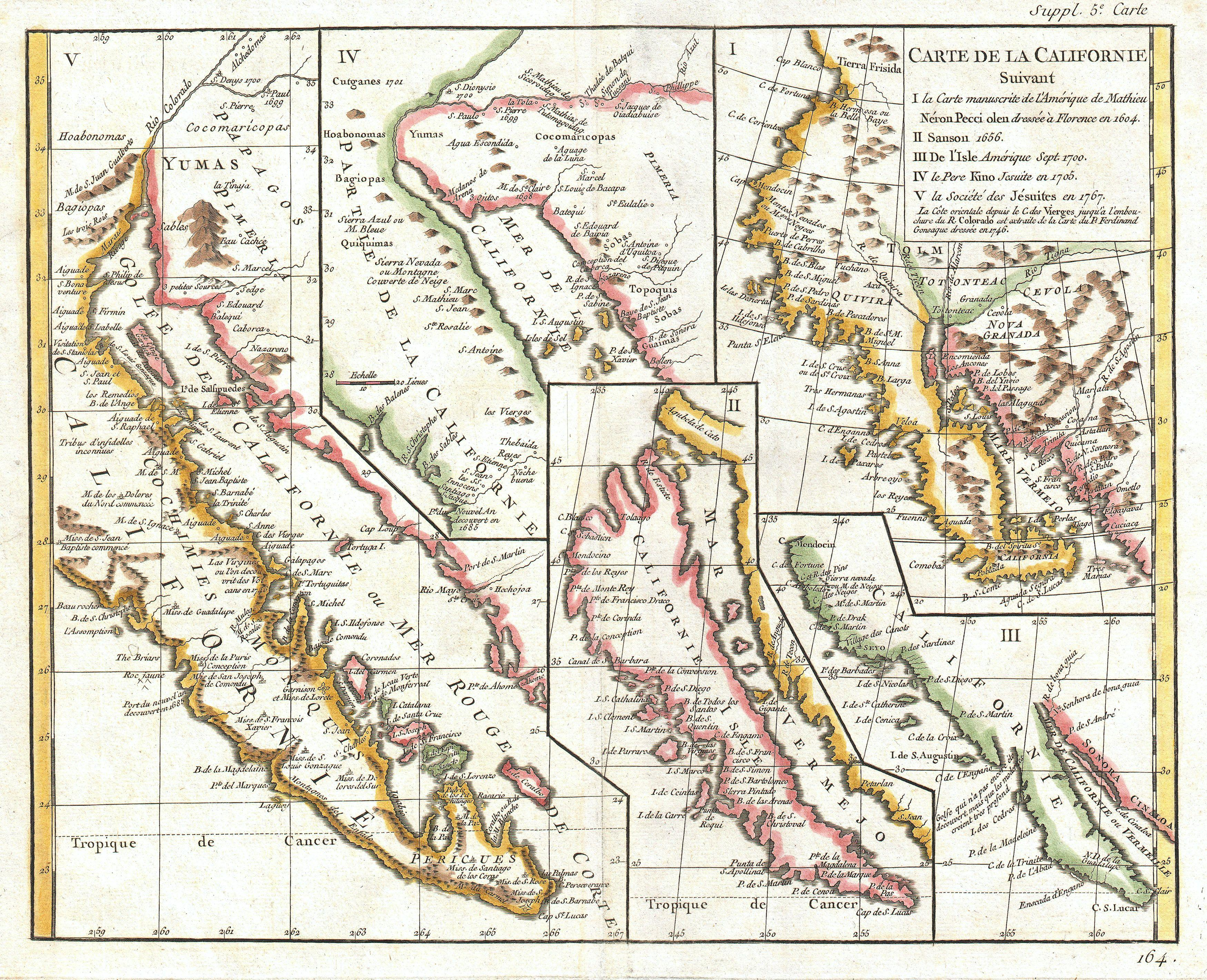 A rare and important map of California in five different states, ranging from roughly 1656 to 1767. Engraved by the important French cartographer Robert De Vaugondy, for the c. 1770 edition of the Denis Diderot (1713-84) Encyclopedie . This map explores the confused state of California cartography in the late 18th century. Examines the gradual discovery of California through various seminal mappings. Initially uses the work of Italian cartographer Matheau Neron Pecci (1604) which correctly presumed that the main body of California extended southward into a peninsula. The next map illustrated, by N. Sanson in 1656, displays in insular California. Map no. III, by Guillaume de L'Isle (1700) reattaches California to the mainland, returning to the early peninsular theory. Next, Vaugondy exhibits part of the seminal Kino Map. This map, rendered by a Jesuit missionary c. 1705 was the work that finally disproved the California Insular theory. Father Franz Kino walked this region between 1698 and 1701. The final map, produced by unnamed Jesuits c. 1767 is a somewhat accurate depiction of the Baja California peninsula. These maps all predate the discoveries of Captain Cook’s voyages and hence Diderot’s work was as much speculative as historical. A fine example of an essential work for all serious California collections. This map is part of the 10 map series prepared by Vaugondy for the Supplement to Diderot’s Encyclopédie , of which this is plate 5. This seminal map series, exploring the mapping of North American and specifically the Northwest Passage was one of the first studies in comparative cartography.